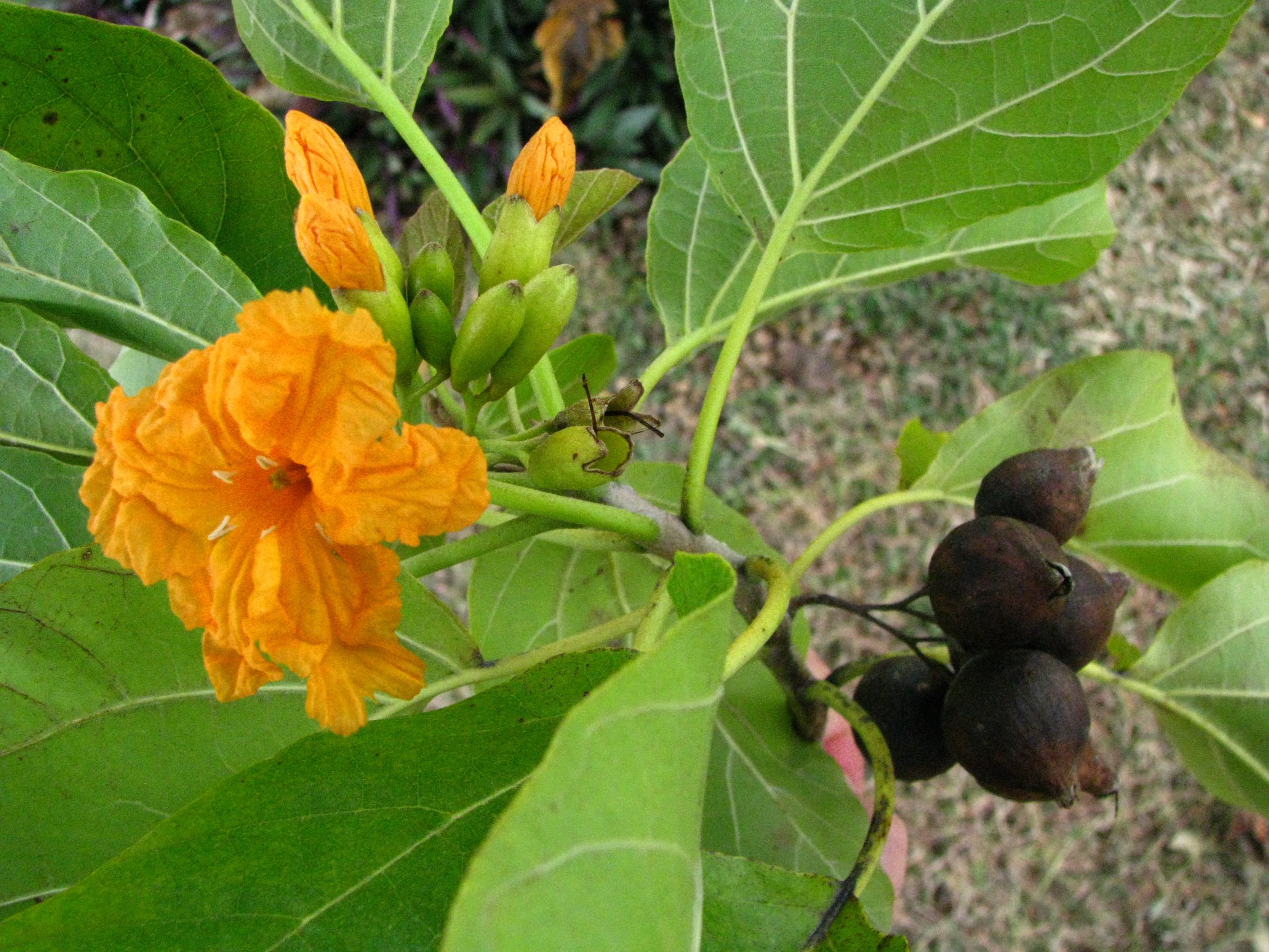 Cultivated specimen of the indigenous Kou (Cordia subcordata, Boraginaceae) on the island of Oʻahu, Hawaii.